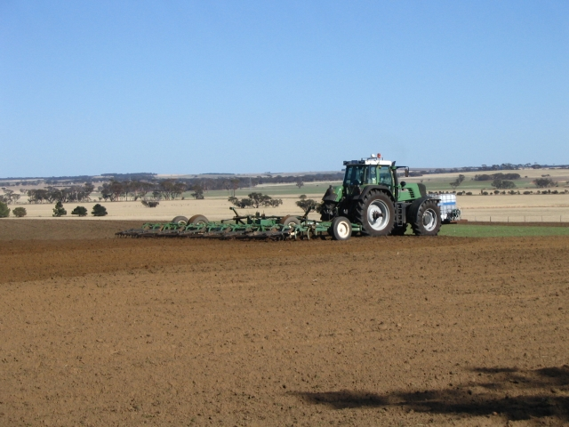 Cultivating after early rain. Ripping up with a Fendt 924 (Favorit 924 Vario or Vario 924?) near Kulin, Western Australia.